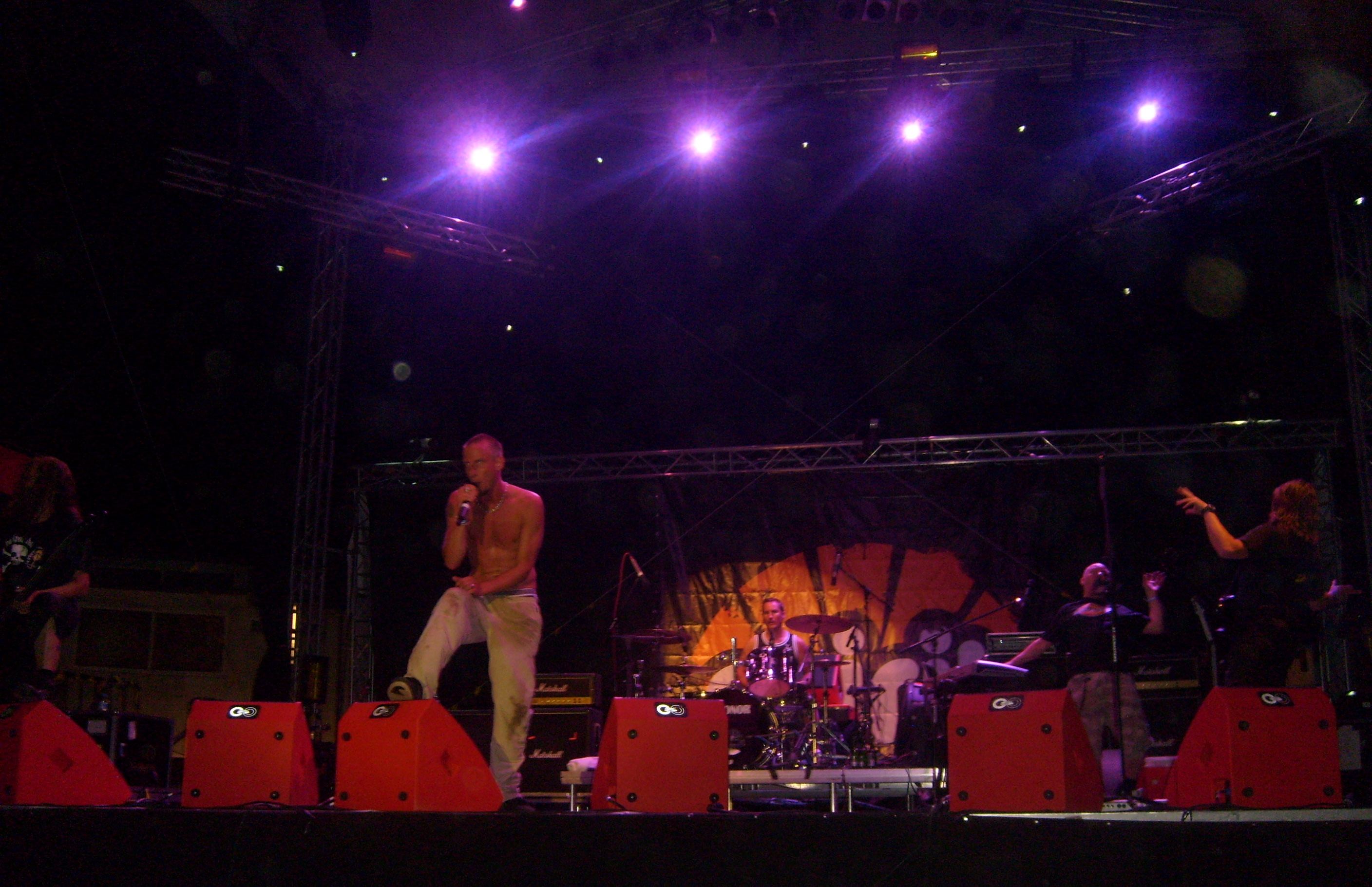 Clawfinger performing at Spirit of Burgas on 16 August 2009, Burgas, Bulgaria